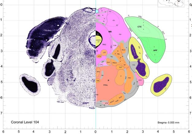 Brain expression information for LRRN3 protein